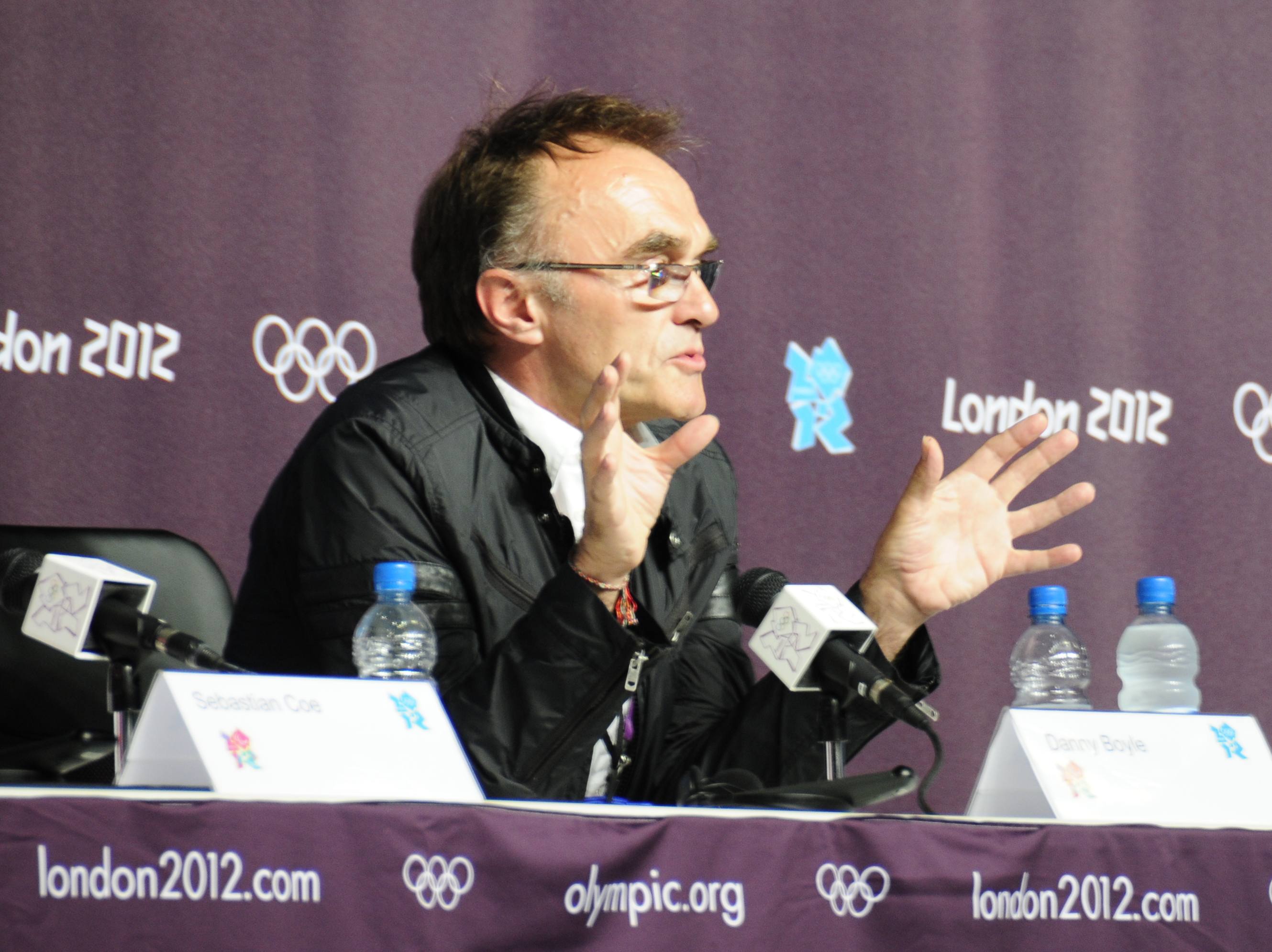 Danny talks about tonight's ceremony (2012 Summer Olympics opening ceremony)